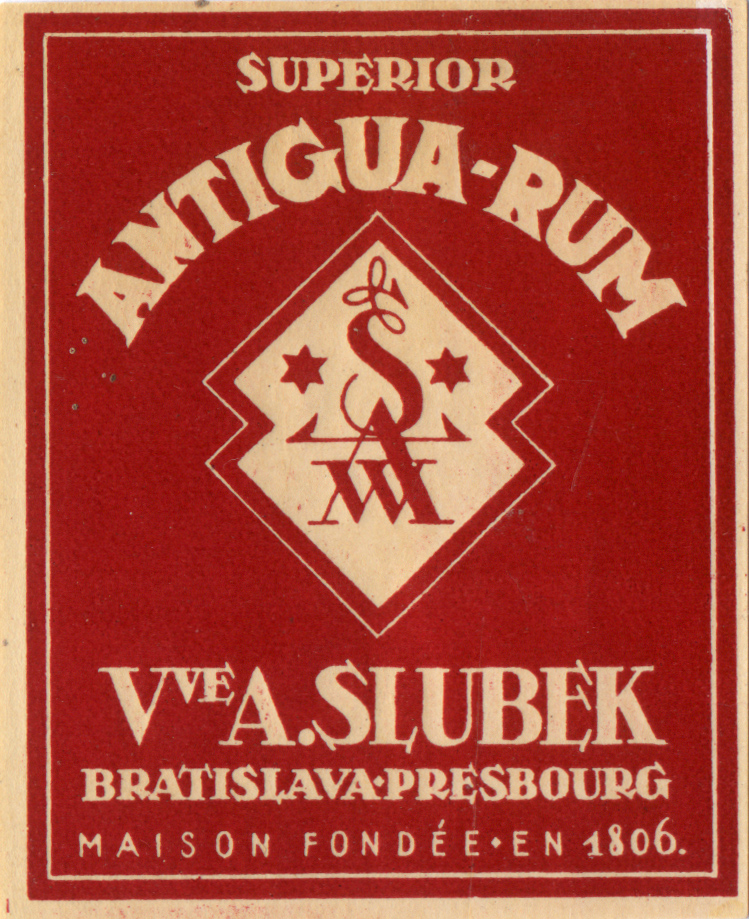 Rum label used by the Slubek factory around 1839-1874.